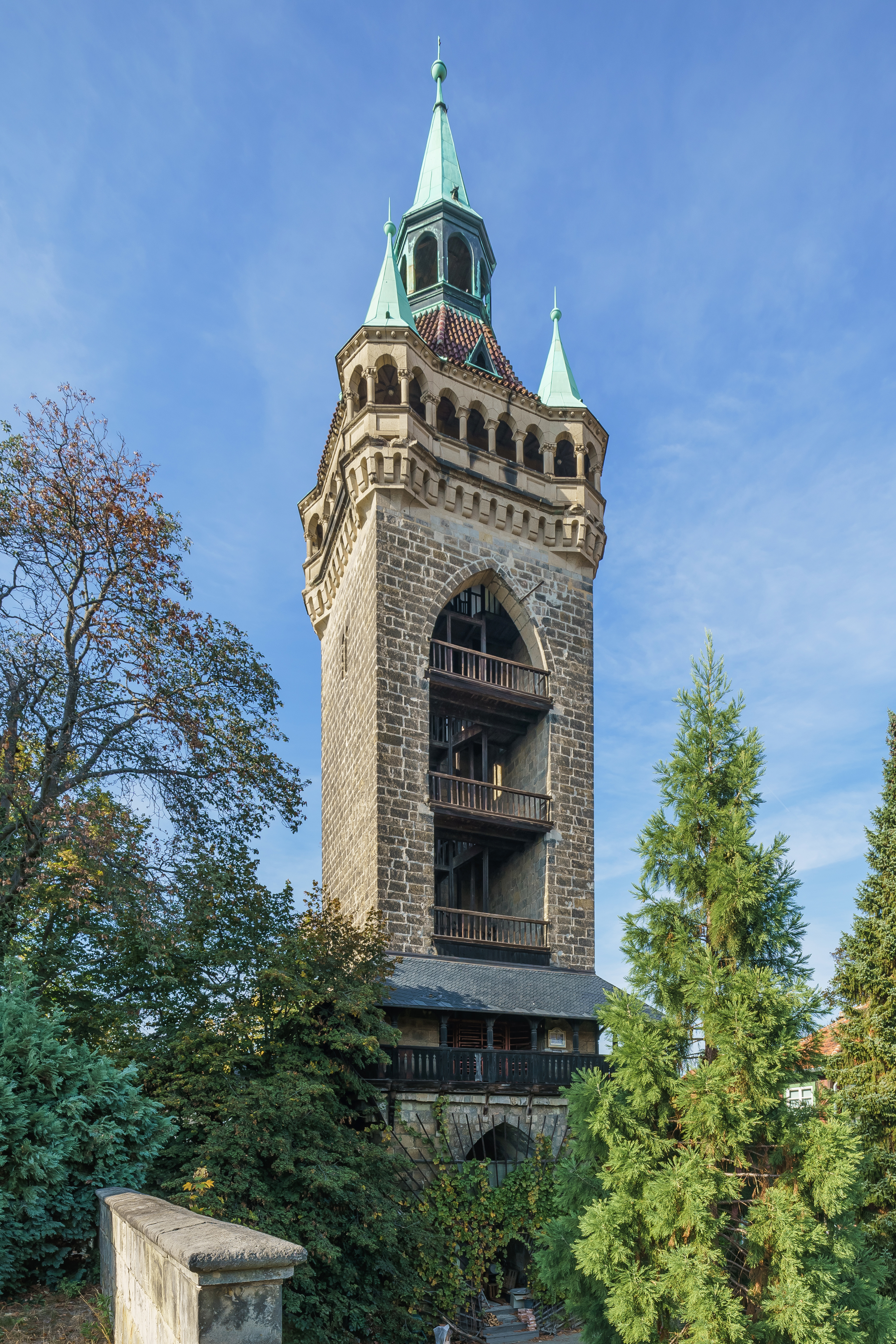 Old Town in Quedlinburg, Germany